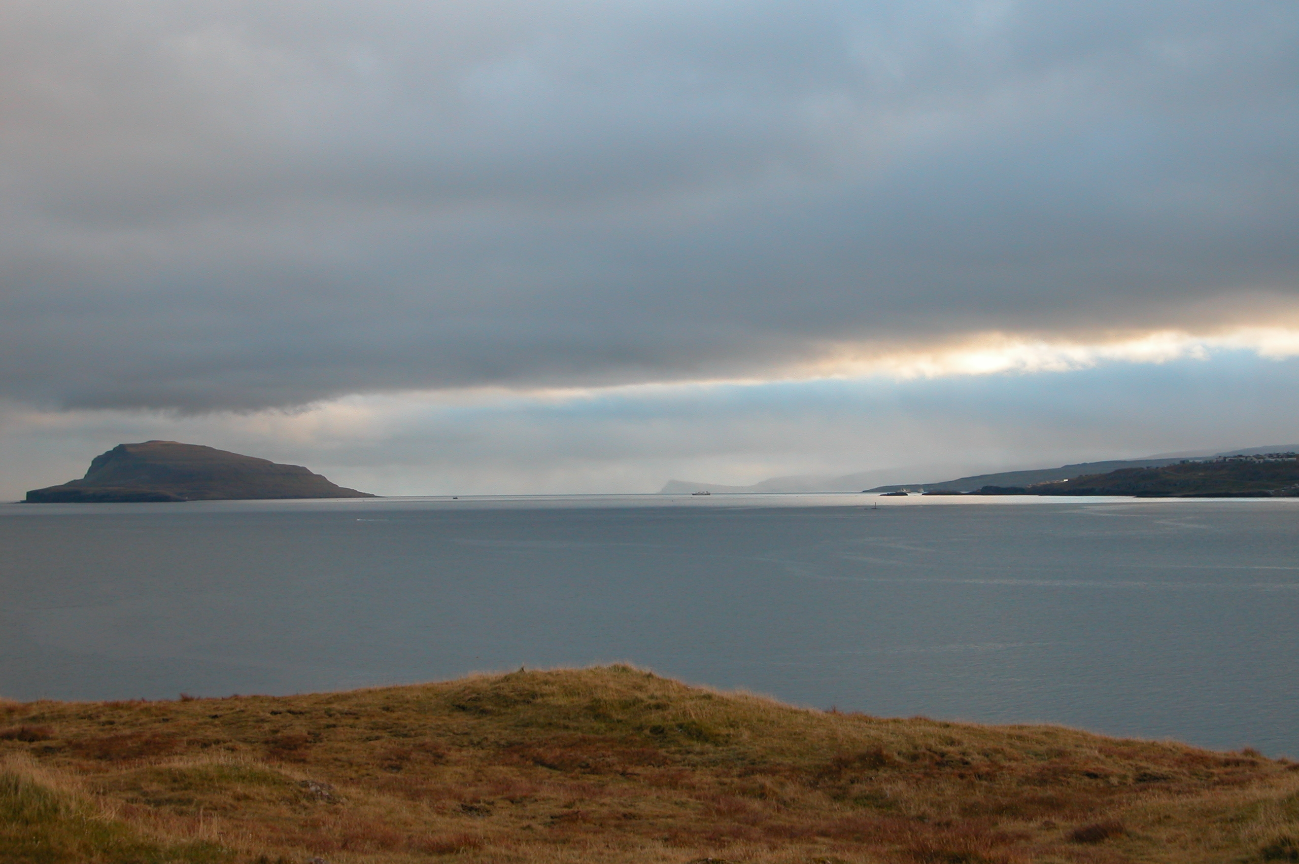 The headland Raktangi, Eysturoy, Faroe Islands. View souththwards to Nólsoy, Sandoy and Hoyvík, Streymoy.